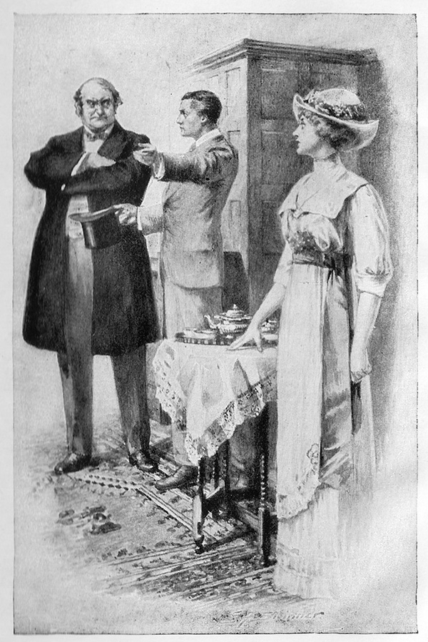 Illustration for E. W. Hornung's Raffles novel Mr. Justice Raffles by E. F. Skinner